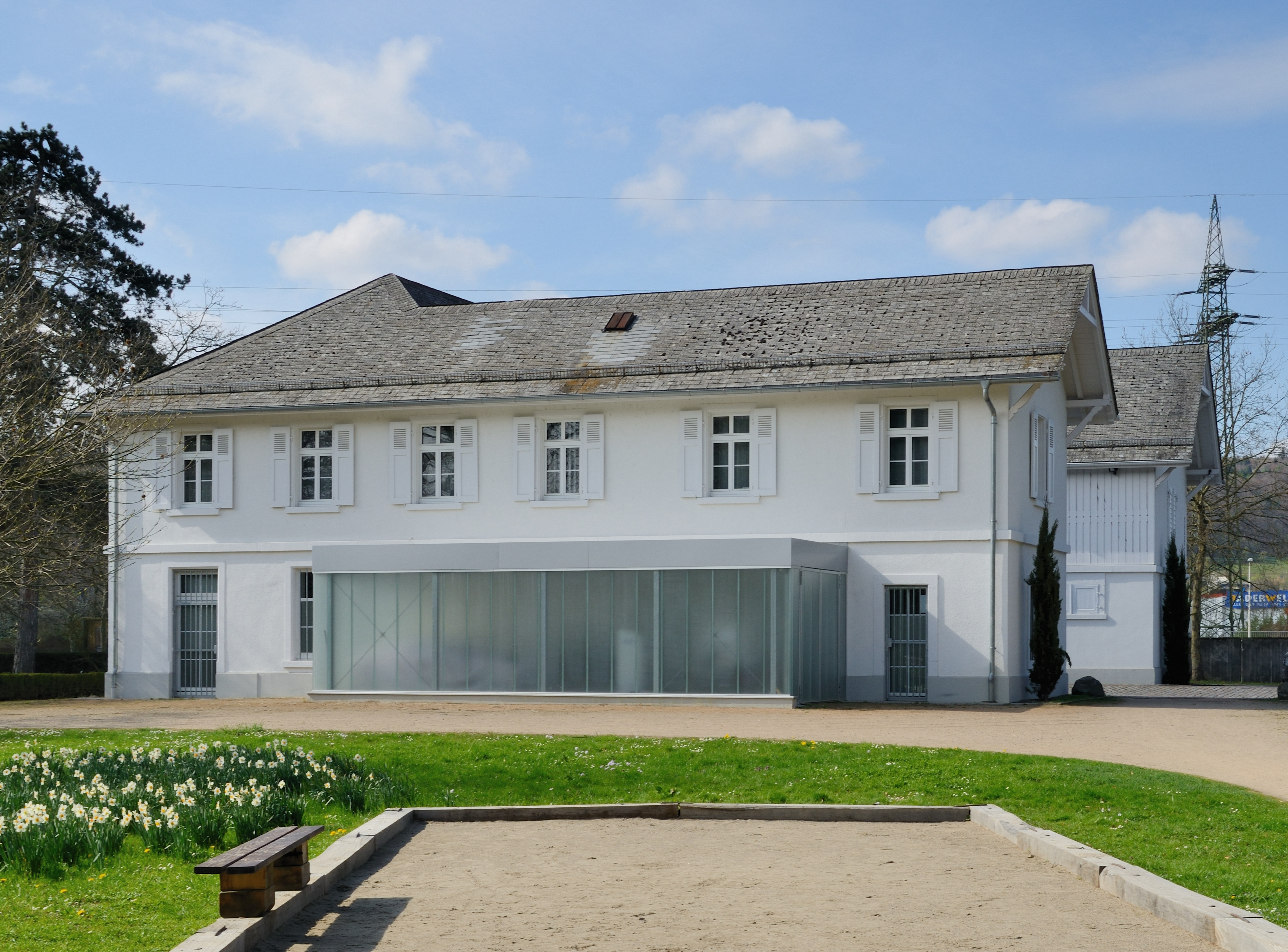 Lörrach: former stables of the Villa Fehr in the Grüttpark